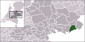 Location of Aalten